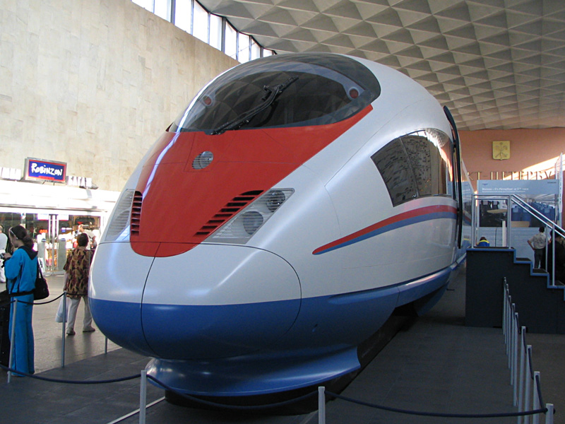 Siemens Velaro RUS (St.Petersburg, Moscow Terminus).